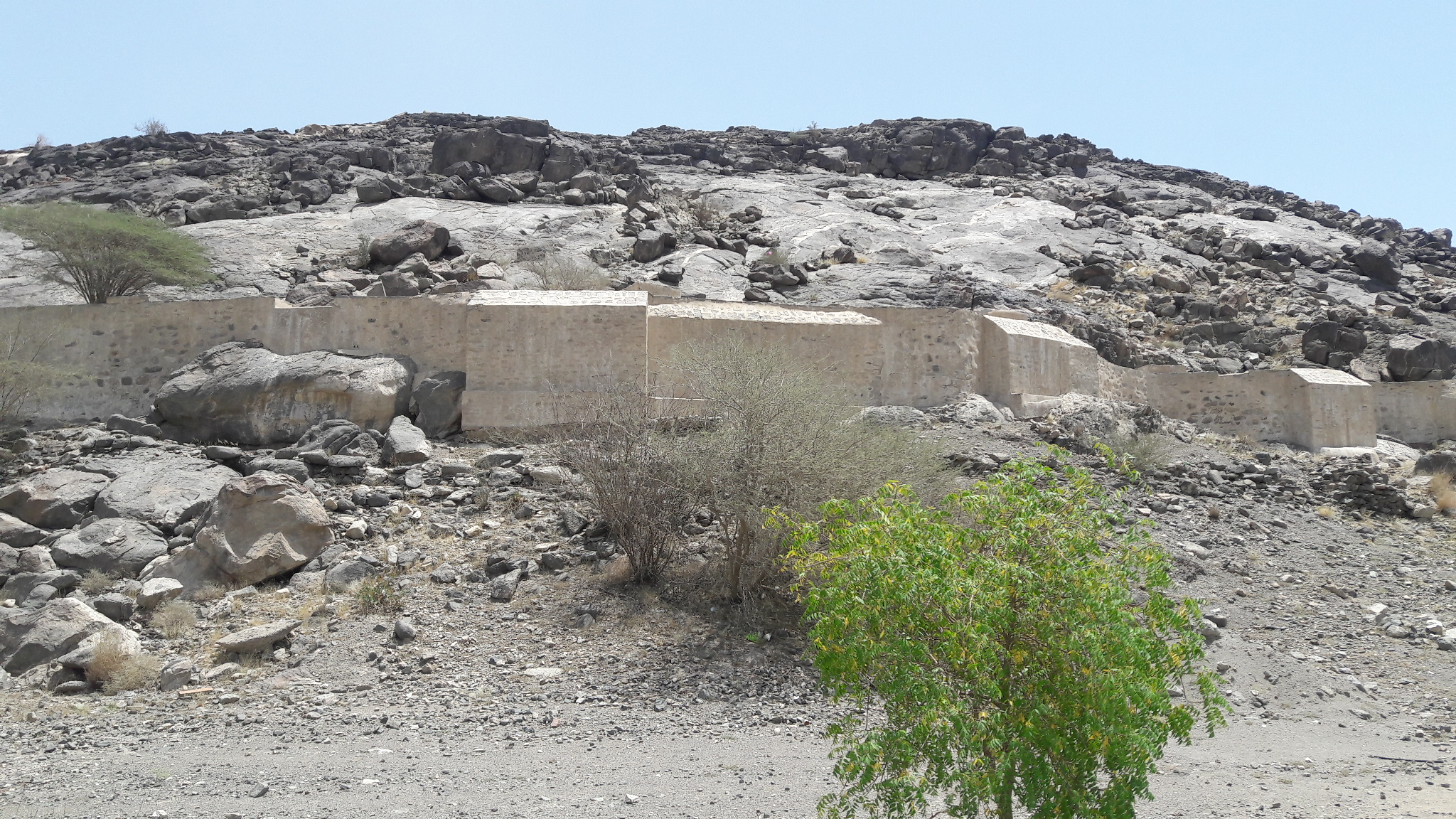 Zubaida Canal Near Arafat